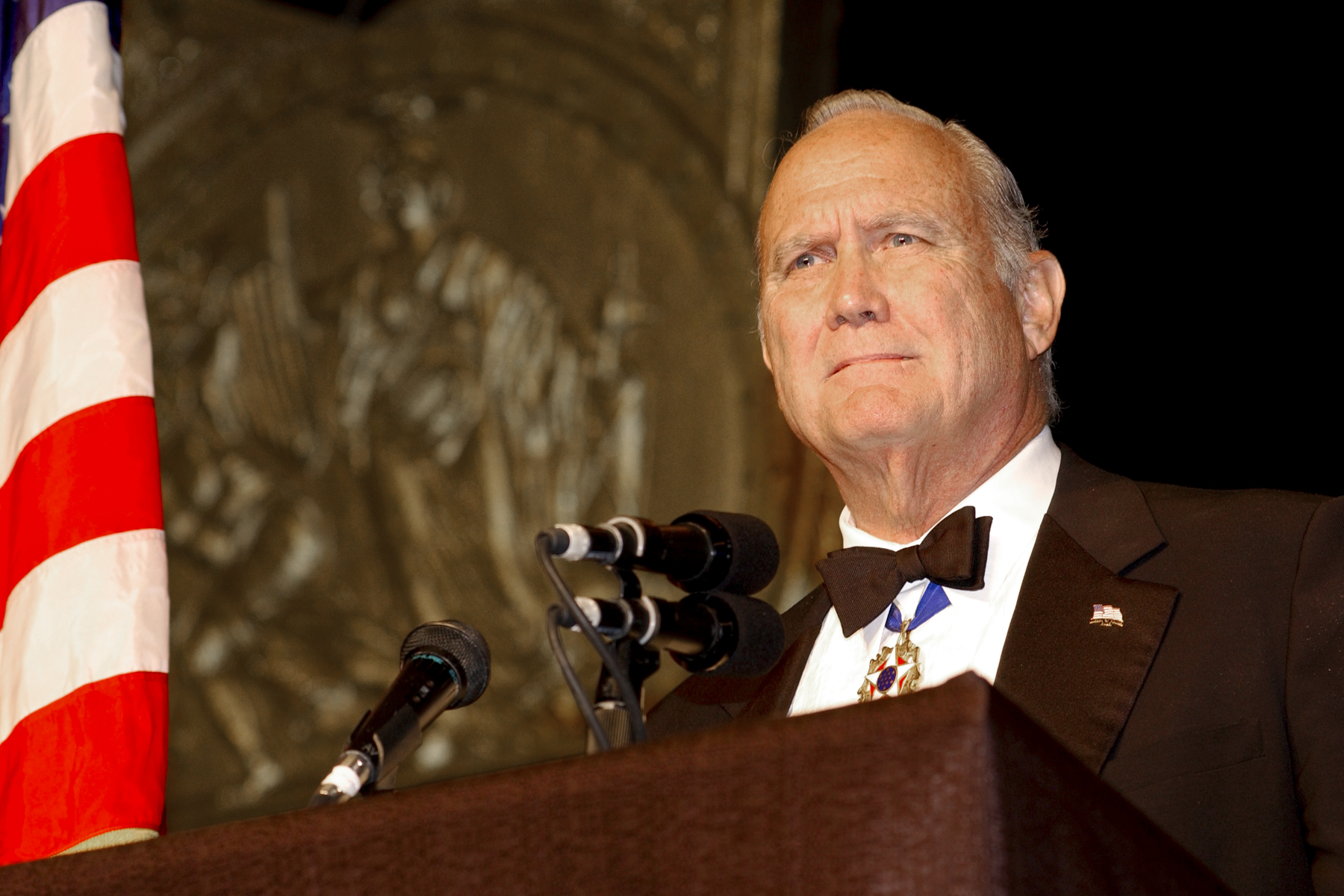 Retired Army Gen. H. Norman Schwarzkopf gives an acceptance speech after receiving the Congressional Medal of Honor Society's Patriot Award during a ceremony in Shreveport, La., Sept. 12, 2002. The Patriot Award is the society's highest award, presented to a distinguished American who exemplifies the ideals that make the United States strong.